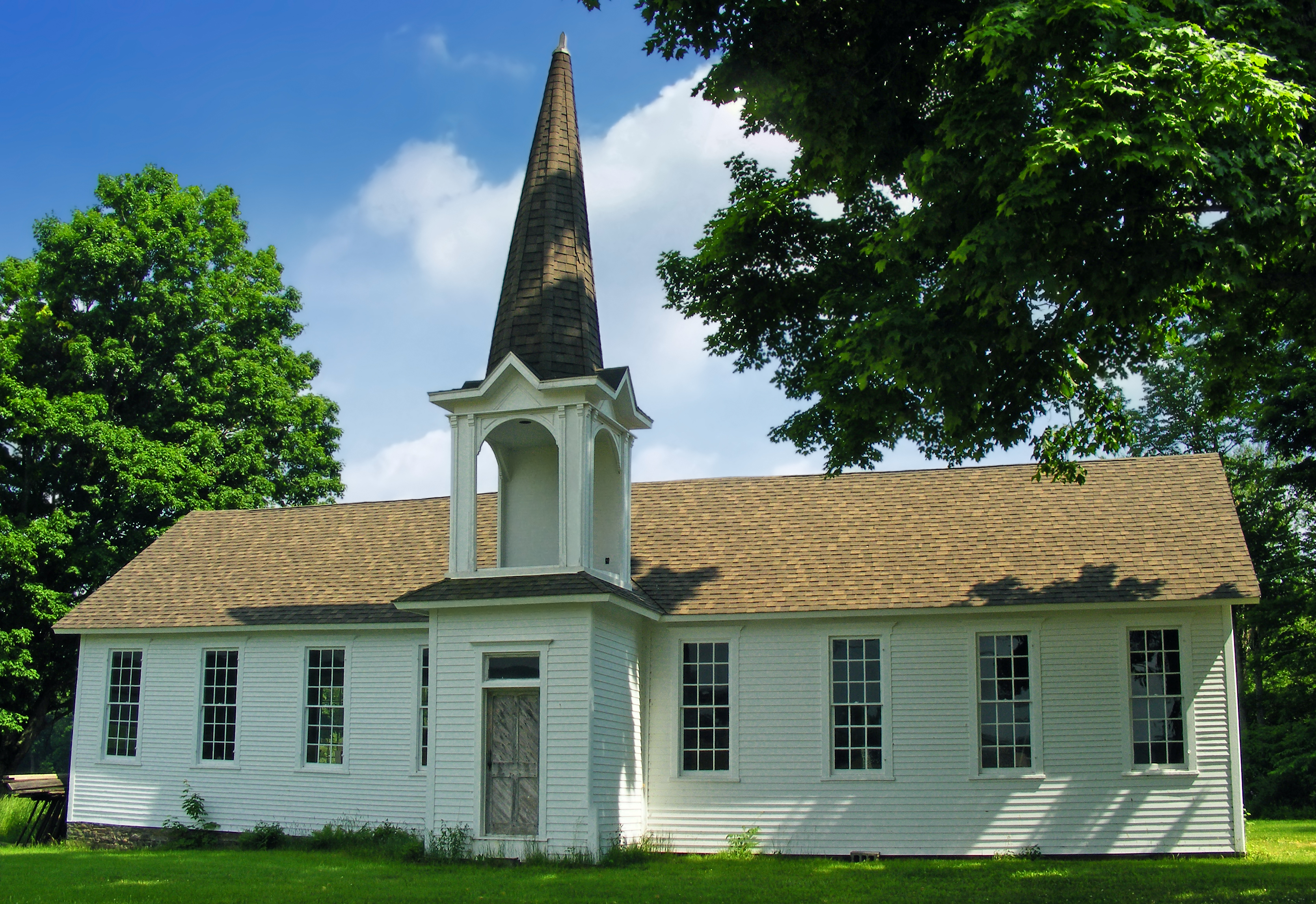 Old-fashioned one-room schoolhouse, Fishing Creek Township, Columbia County.